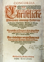 Title Page from 1580 German Edition of the Book of Concord. (Image privately held by Paul T. McCain. Digital photo taken by Paul McCain. Made available to public domain.)